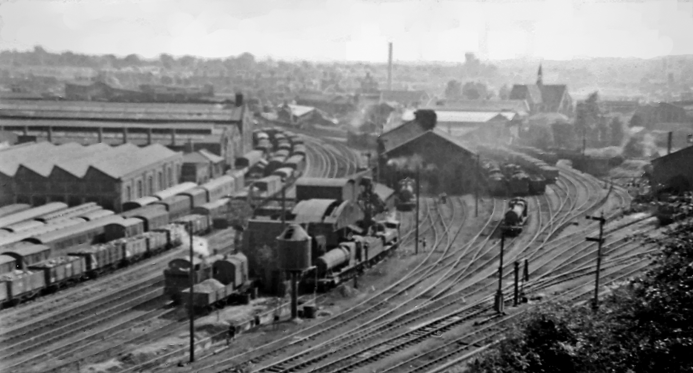 Railway panorama from Rainbow Hill, Worcester A more general [- but a little blurred -] view on the same day as NX0882 : River Bank to Shrub Hill Station in the middle distance, across the Worcester Loop line and dual Locomotive Depot. The 'Passenger' Shed is in the centre, the 'Goods' Shed on the right, the coaling and ash-disposal 'facilities' nearer; over on the left is the ex-GWR Locomotive Works and part of the Goods Yard. Between the two engine sheds is the 'Vinegar Branch', which goes down through the town to serve various industrial premises and is famous for its railway signals controlling road traffic. The general smoke obliterates the course of the lines between Shrub Hill and Foregate Street; the Cathedral is just visible through the gloom.